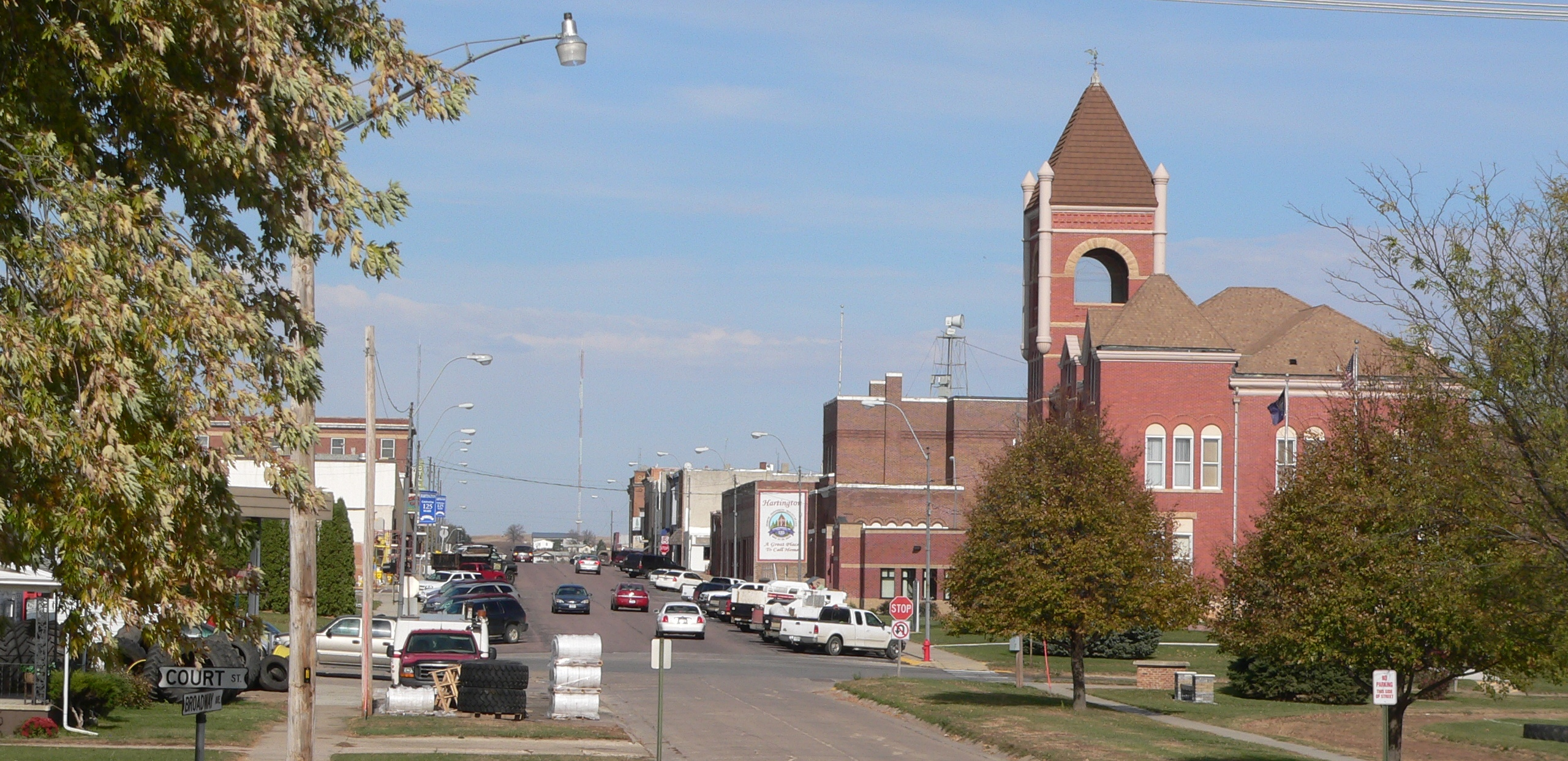 Hartington, Nebraska: Broadway Avenue, looking north from about Court Street.